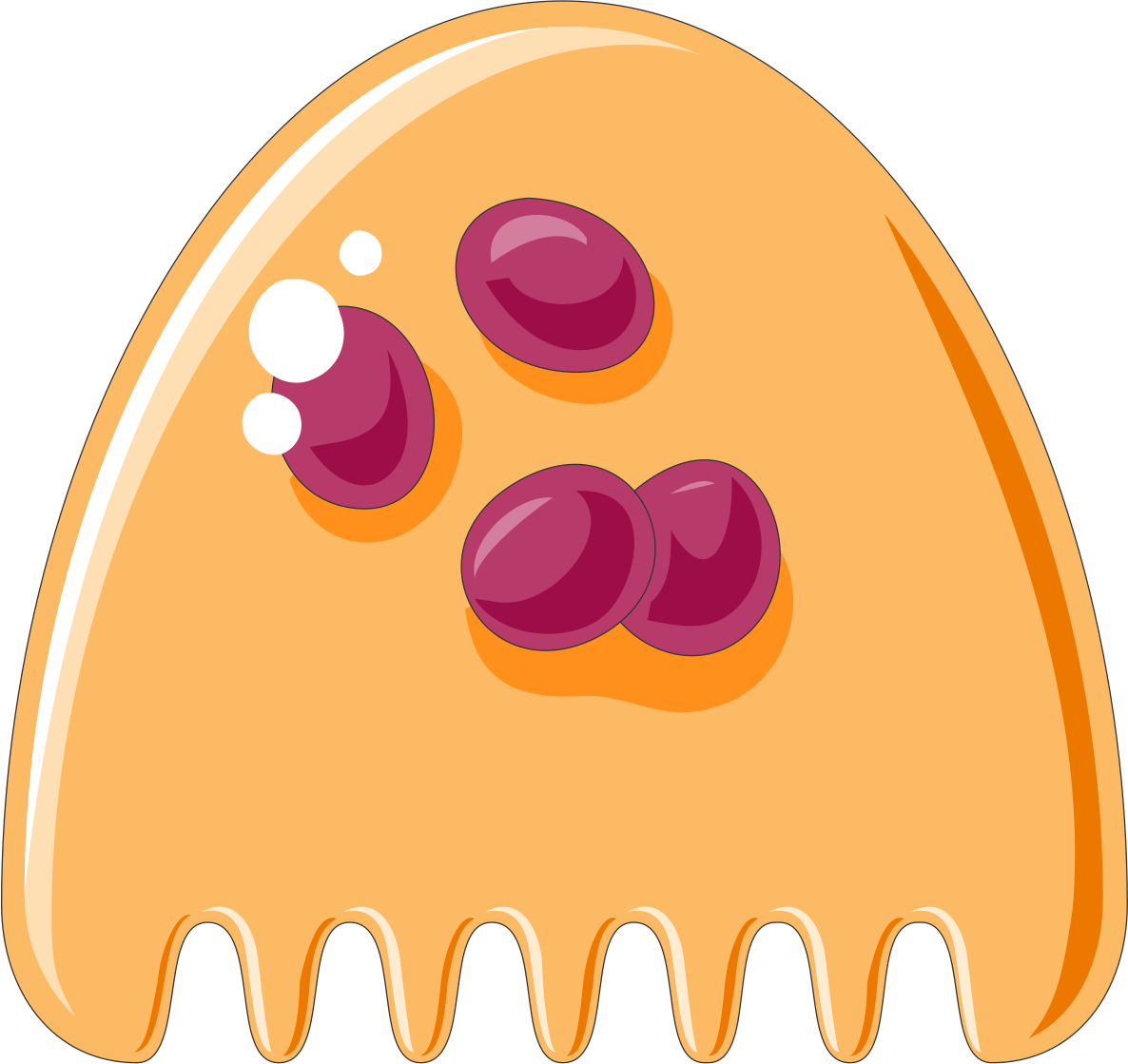 Bone structure - Bone degrading cells - Osteoclasts